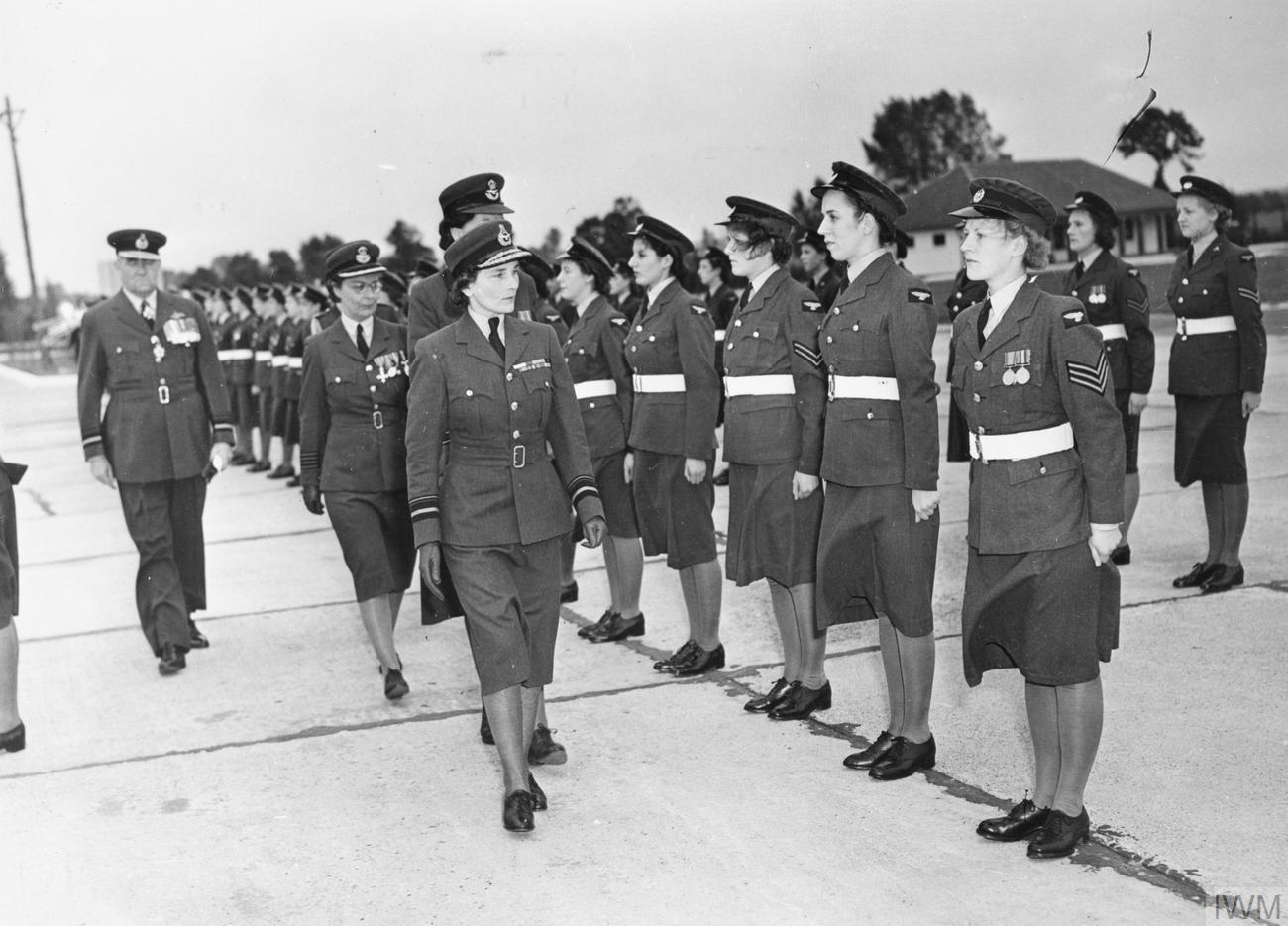 1948 berlin airlift - IWM says HRH The Duchess of Gloucester inspects the WRAF at Gatow. behind her are Commander in Chief BAFO, Sir Thomas Williams, WRAF Command Staff Officer, Group Officer Conan Doyle and Air Commandant Felicity Hanbury (later Dame Felicity Peake). 1948 exact day no known